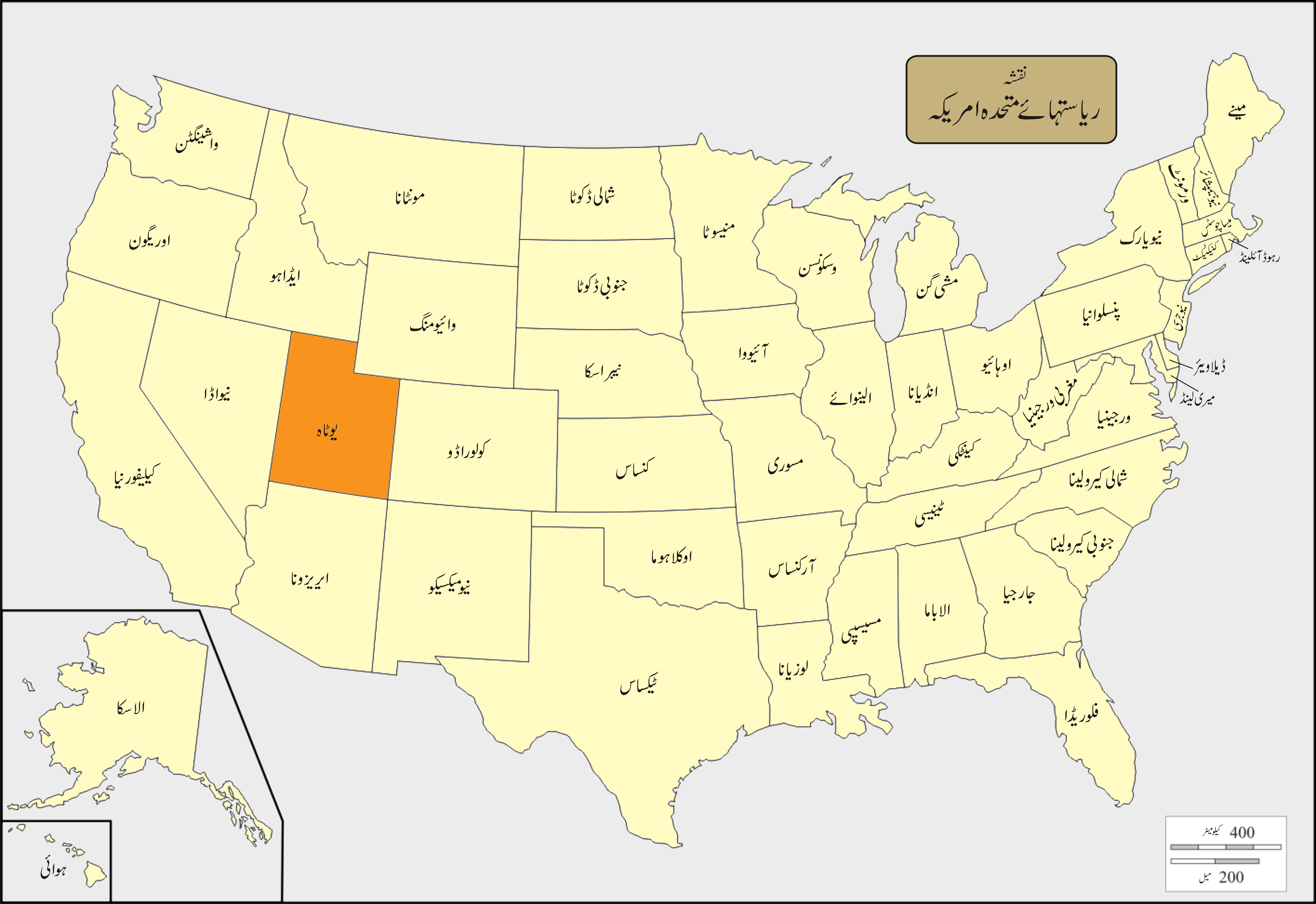 USA Names Utah